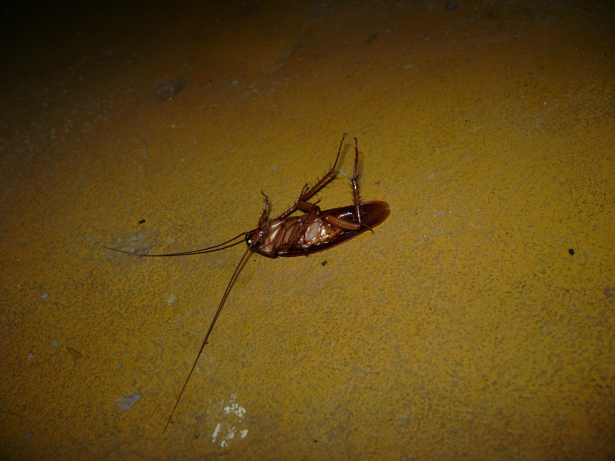 A cockroach upside down.